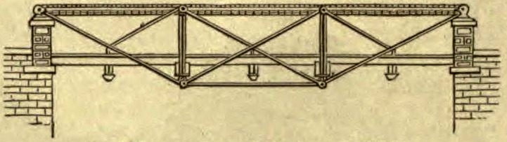 Woodcut/drawing of a lattice girder (modified Fink truss)